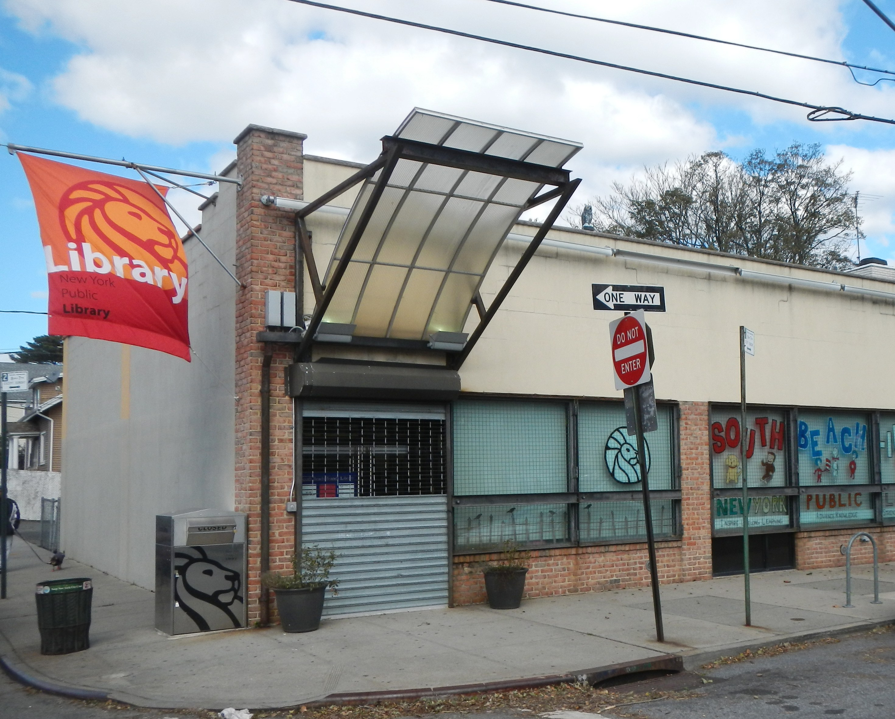 Looking north at South Beach Library in Staten Islande.